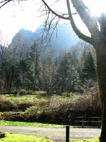 The cliffs of the Columbia River Gorge above Ainsworth State Park, Oregon, looking generally southeast. Taken from the campground portion of the park on 17 March 2007.